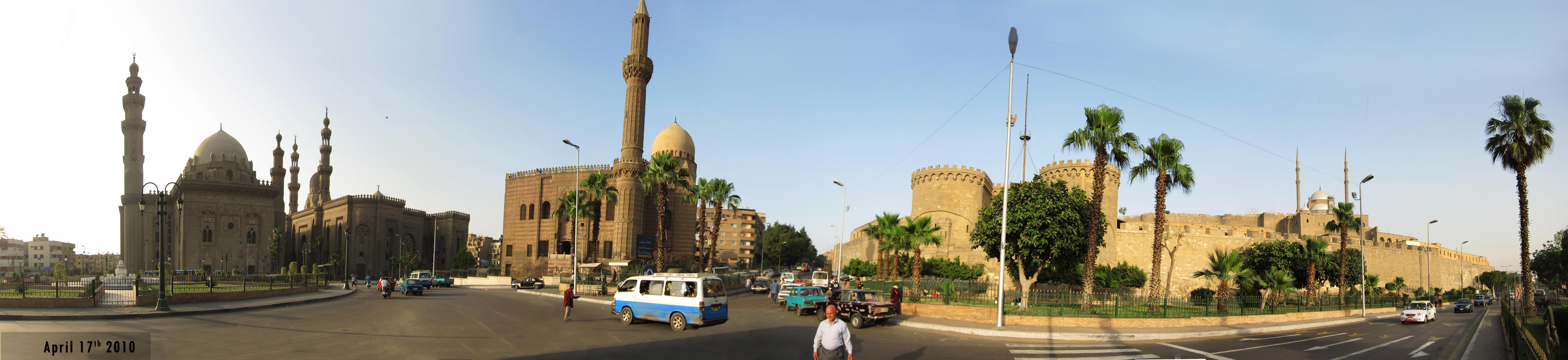 The Sultan Hassan Mosque is considered stylistically the most compact and unified of all Cairo monuments. It is one of the masterpieces of Mamluk architecture. The building was commissioned by Sultan Hassan bin Al-Nasir Muhammad bin Qalawun in 1356 AD as a mosque and religious school for all four juristic branches of Sunni Islam. It was designed so that each of the four schools of thought - Shafi, Maliki, Hanafi and Hanbali - has its own area while sharing the mosque.[1]. Source. The Al-Rifa'i Mosque (Arabic: مسجد الرفاعى, transliterated also as Al-Rifai, Al-Refai, Al-Refa'i, and named in English the Royal Mosque), is located in Cairo, Egypt, in Midan al-Qal'a, adjacent to the Cairo Citadel. The building is located opposite the Madrassa of Sultan Hassan, which dates from around 1361, and was architecturally conceived as a complement to the older structure. This was part of a vast campaign by the 19th century rulers of Egypt to both associate themselves with the perceived glory of earlier periods in Egypt's Islamic history and modernize the city. The mosque was constructed next to two large public squares and off of several European style boulevards constructed around the same time. Source . More .. The Saladin Citadel of Cairo (Arabic: قلعة صلاح الدين Qalaʿat Salāḥ ad-Dīn) is a fortification in Cairo, Egypt. The location, part of the Muqattam hill near the center of Cairo, was once famous for its fresh breeze and grand views of the city, and was fortified by the Ayyubid ruler Salah al-Din (Saladin) between 1176 and 1183 AD, to protect it from the Crusaders[1]. Source.